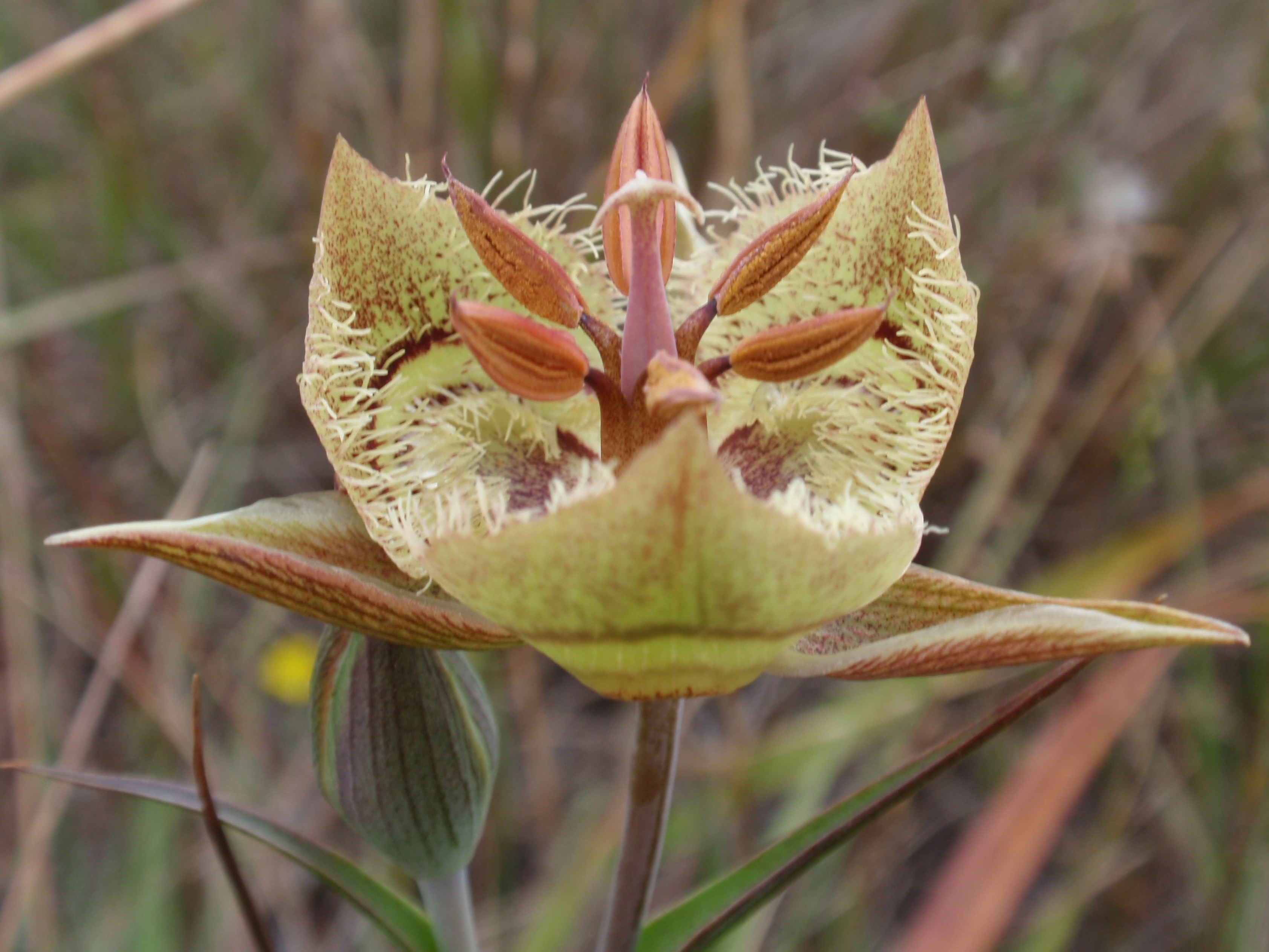 Calochortus tiburonensis, a rare and endangered species that grows only on Ring Mountain in Tiburon. More info here.